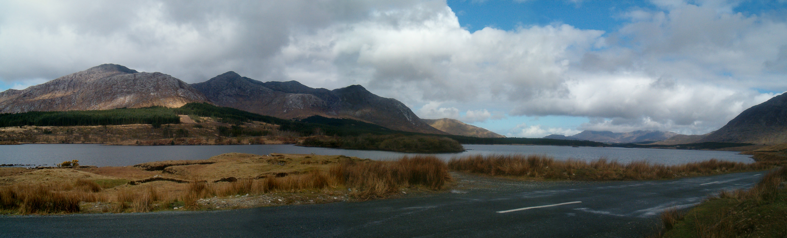 The Twelve Bens or Twelve Pins (Irish Na Beanna Beola) is a picturesque mountain range in Connemara in the west of Ireland.